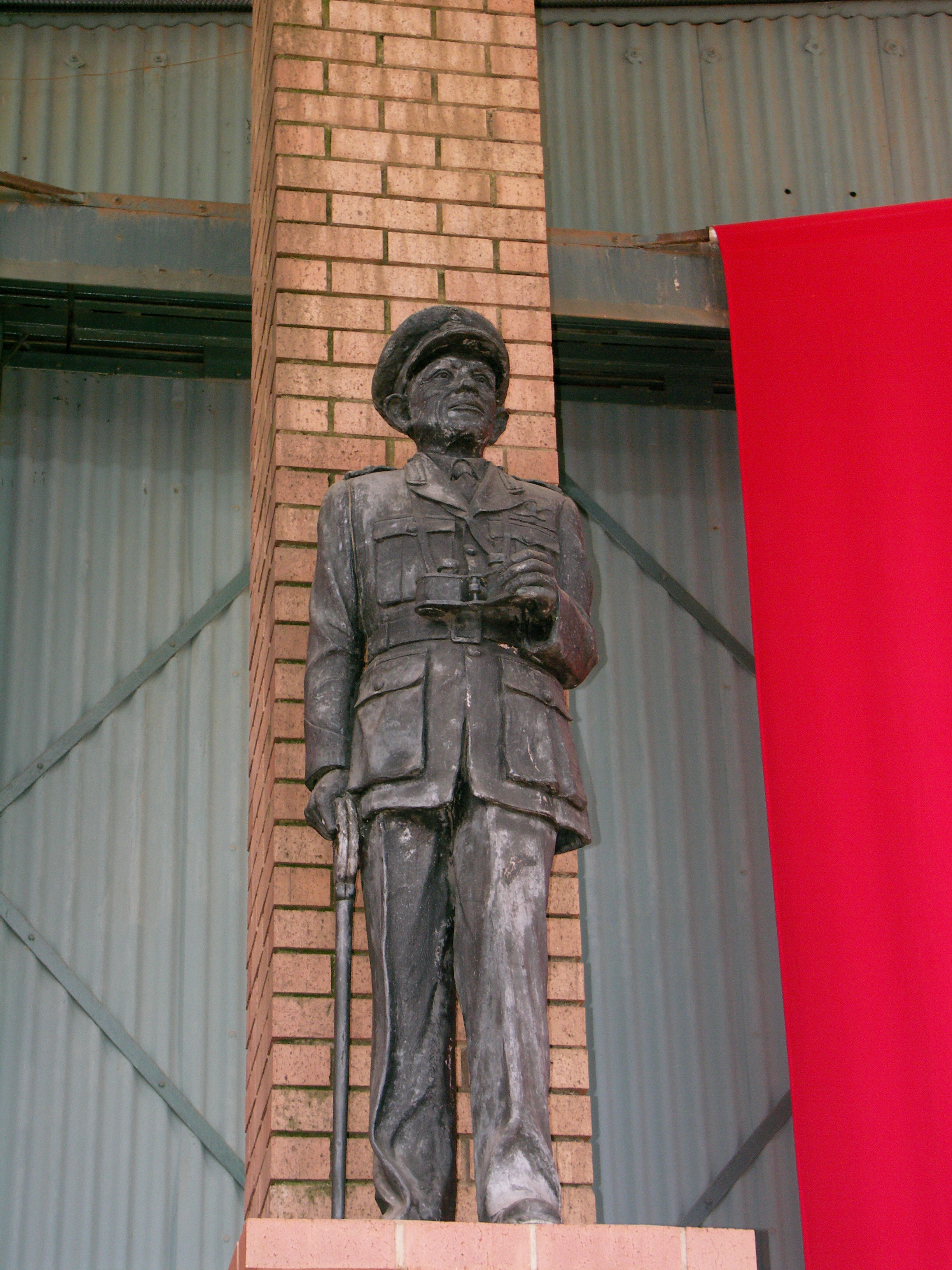 Statue of Major-General Daniel Hermanus ("Dan") Pienaar South African national Museum of Military History